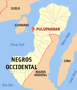 map of valenzuela city